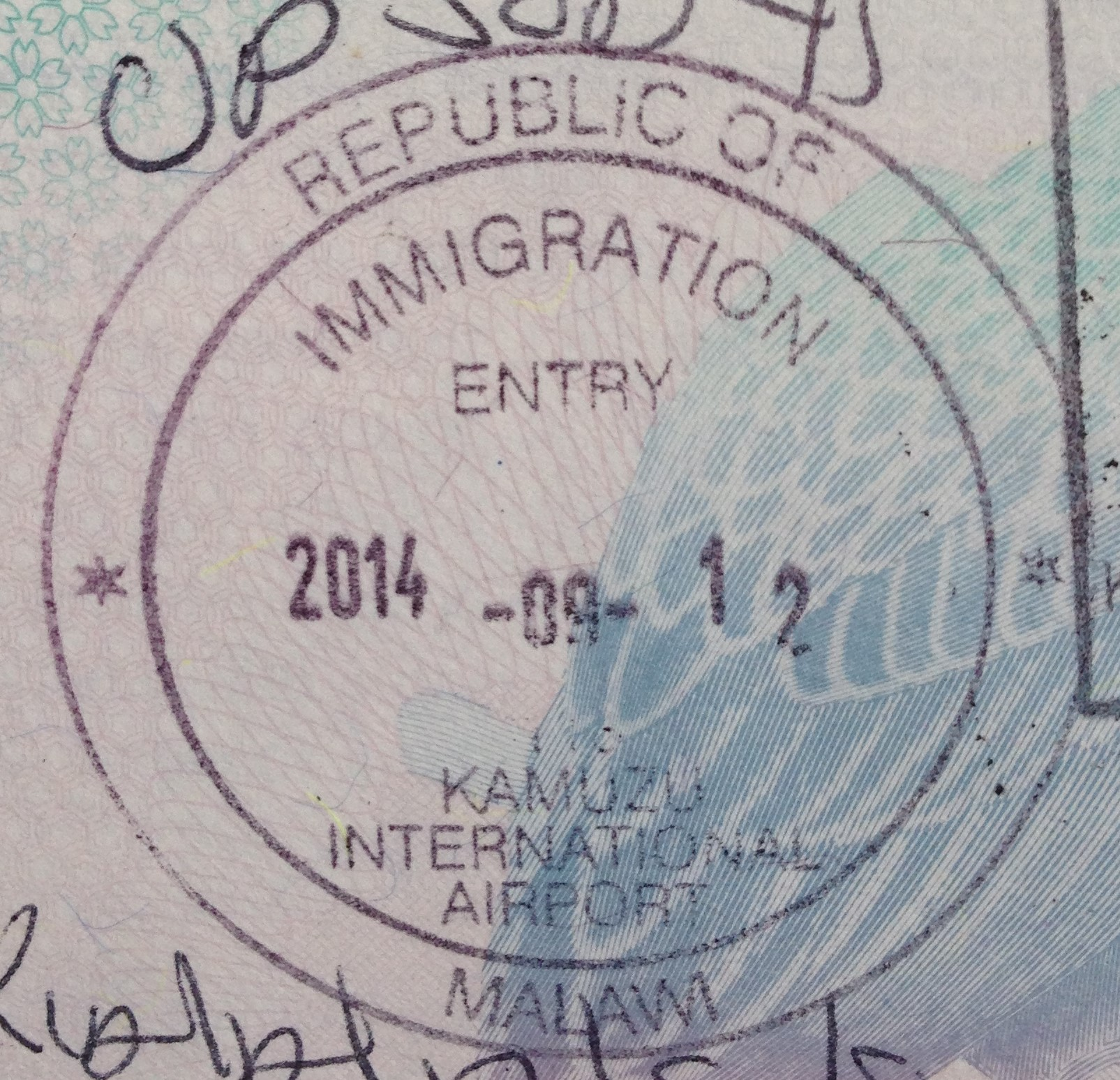 Malawi Entry Passport Stamp